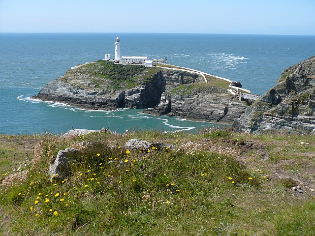 South Stack Lighthouse. The view from near to 870852.